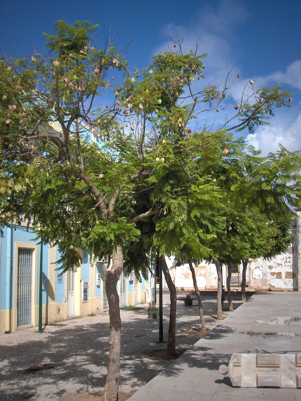 Jacaranda mimosifolia with seedpods; Setúbal, Portugal